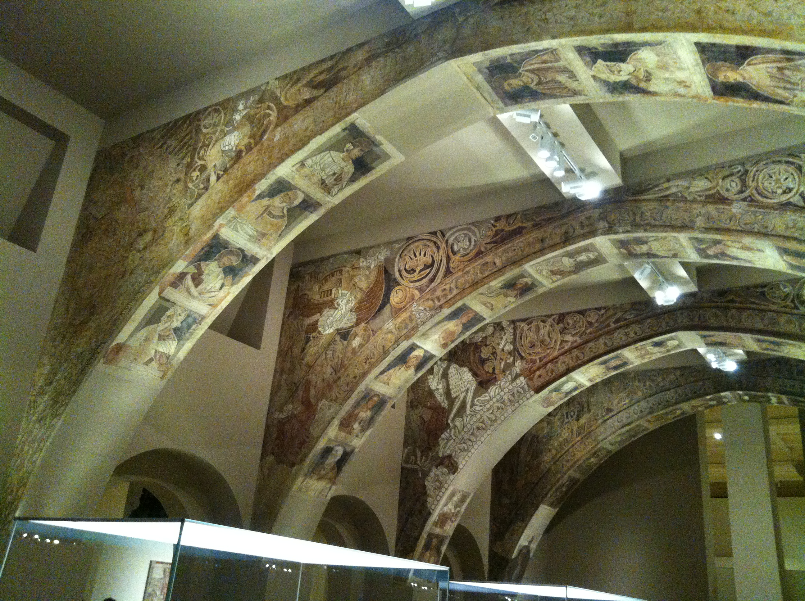 Paintings of the Chapter house of Santa Maria in Sigena, now conserved at MNAC; the National art Museum of Catalonia.